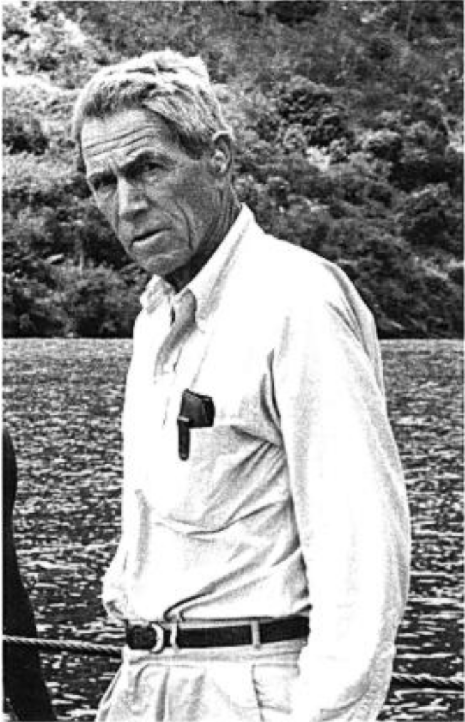 Profile photo of James Greenway in the field